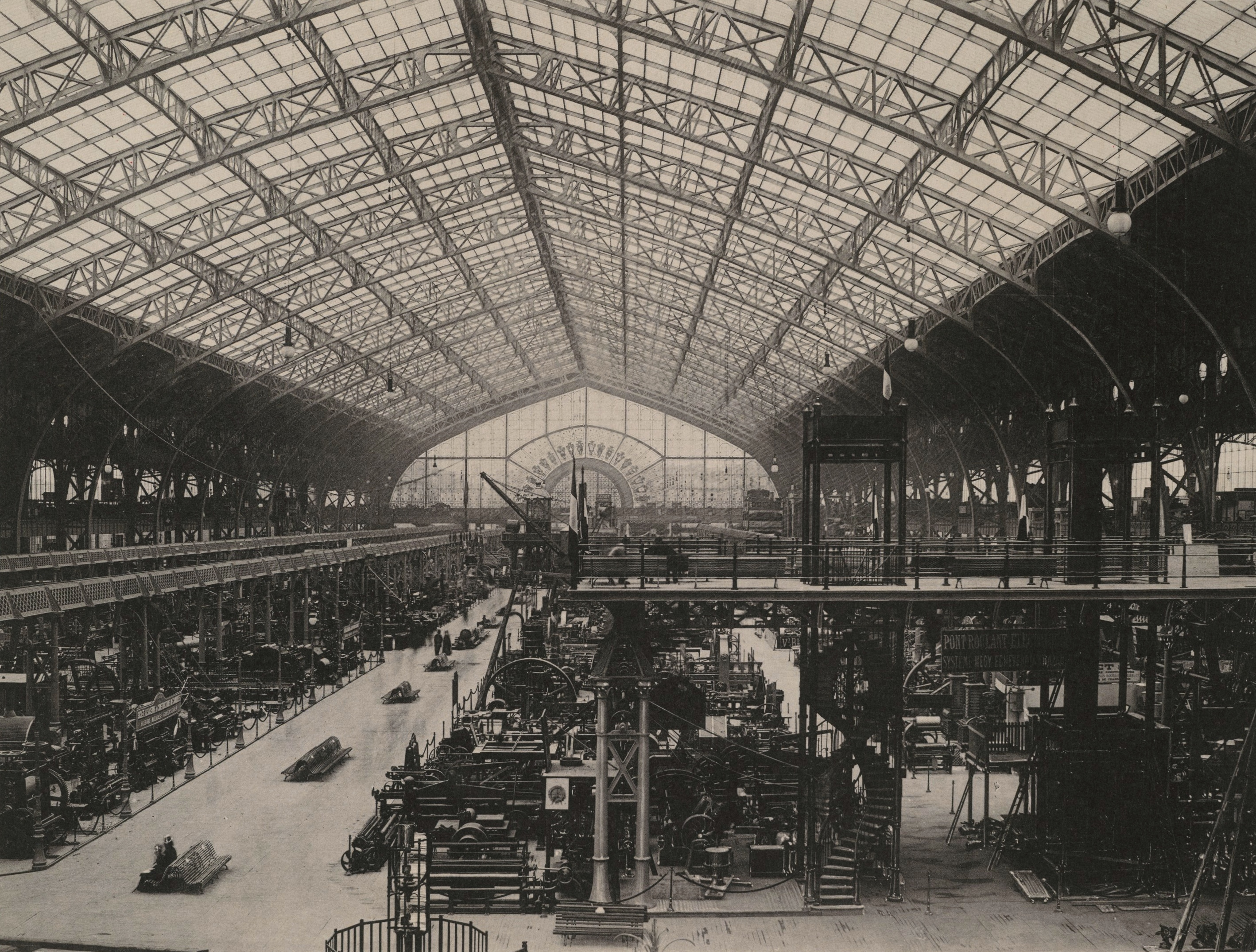 Inside view of the Galerie des machines, which was designed by the architect Dutert. The building was located on the Champ-de-Mars, in front of the Ecole Militaire (which still exists today). It housed an exhibit about technological inventions. It was the biggest and tallest hall created for the 1889 exhibit, and was used again in the 1900 World Fair. It was eventually destroyed shortly afterwards